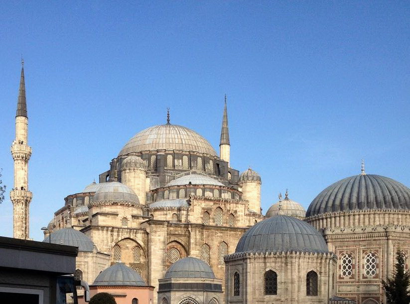 Şehzade Mosque, a 16th-century Ottoman imperial mosque located in the district of Fatih, on the third hill of Istanbul, Turkey. It was commissioned by Suleiman the Magnificent as a memorial to his favorite son Şehzade Mehmed who died in 1543. It is sometimes referred to as the "Prince's Mosque" in English. Suleiman is said to have personally mourned the death of Mehmed for forty days at his temporary tomb in Istanbul, the site upon which the imperial architect Mimar Sinan would construct a lavish mausoleum to Mehmed as one part of a larger mosque complex dedicated to the princely heir. The complex was Sinan's first important imperial commission and ultimately one of his most ambitious architectural works, even though it was designed early in his long career.